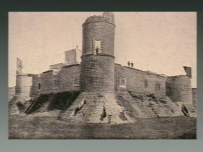 The ruins of the Castle of Chinchon, Spain. Photomechanical print. Iconographic Collections